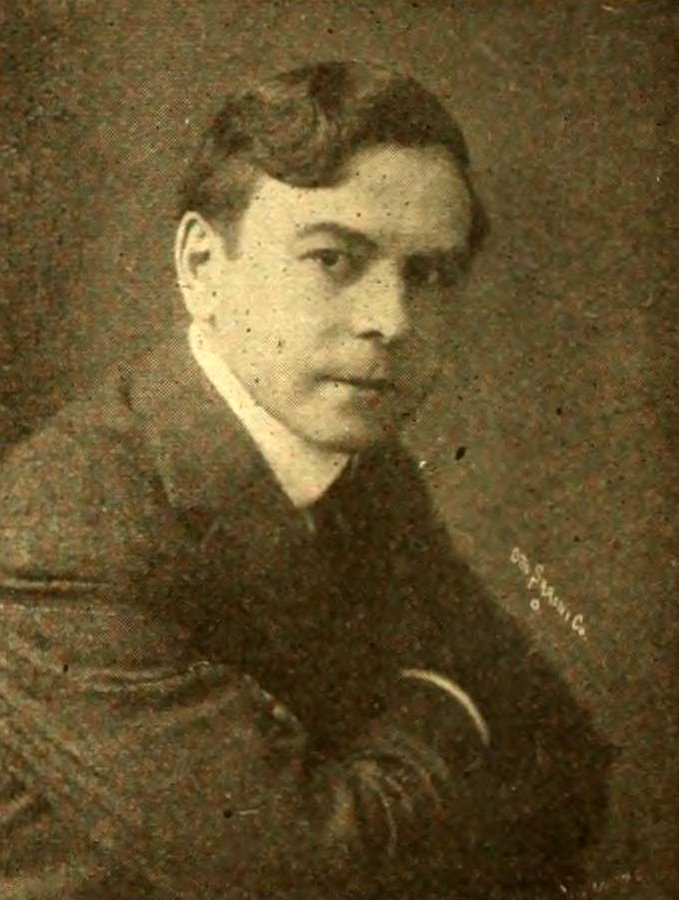 From an article in The Moving Picture World